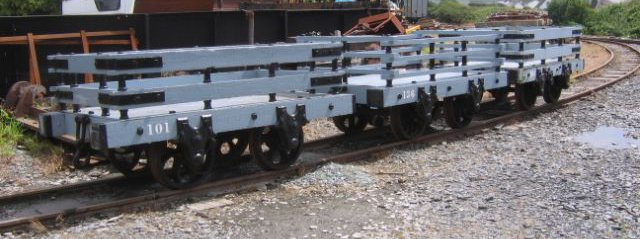 Talyllyn Railway slate waggons 101, 136 and 164 at Tywyn station, in front of the Narrow Gauge Railway Museum